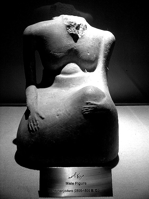 Mound of the Dead) was one of the largest city-settlements of the Indus Valley Civilization of south Asia situated in the province of Sind, Pakistan. Built around 2600 BCE, the city was one of the early urban settlements in the world, existing at the same time as the civilizations of ancient Egypt, Mesopotamia, and Crete. The archaeological ruins of the city are designated a UNESCO World Heritage Site. It is sometimes referred to as "An Ancient Indus Valley Metropolis"[1].